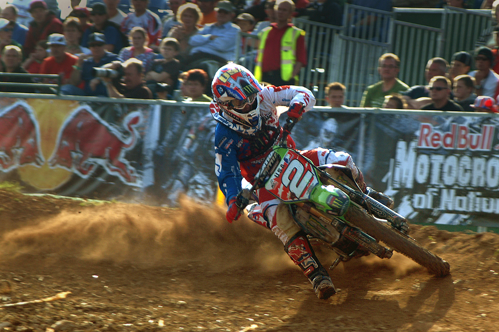 Ryan Villopoto (USA, Kawasaki) at Red Bull FIM Motocross of Nations 2008, in Donington Park (England)